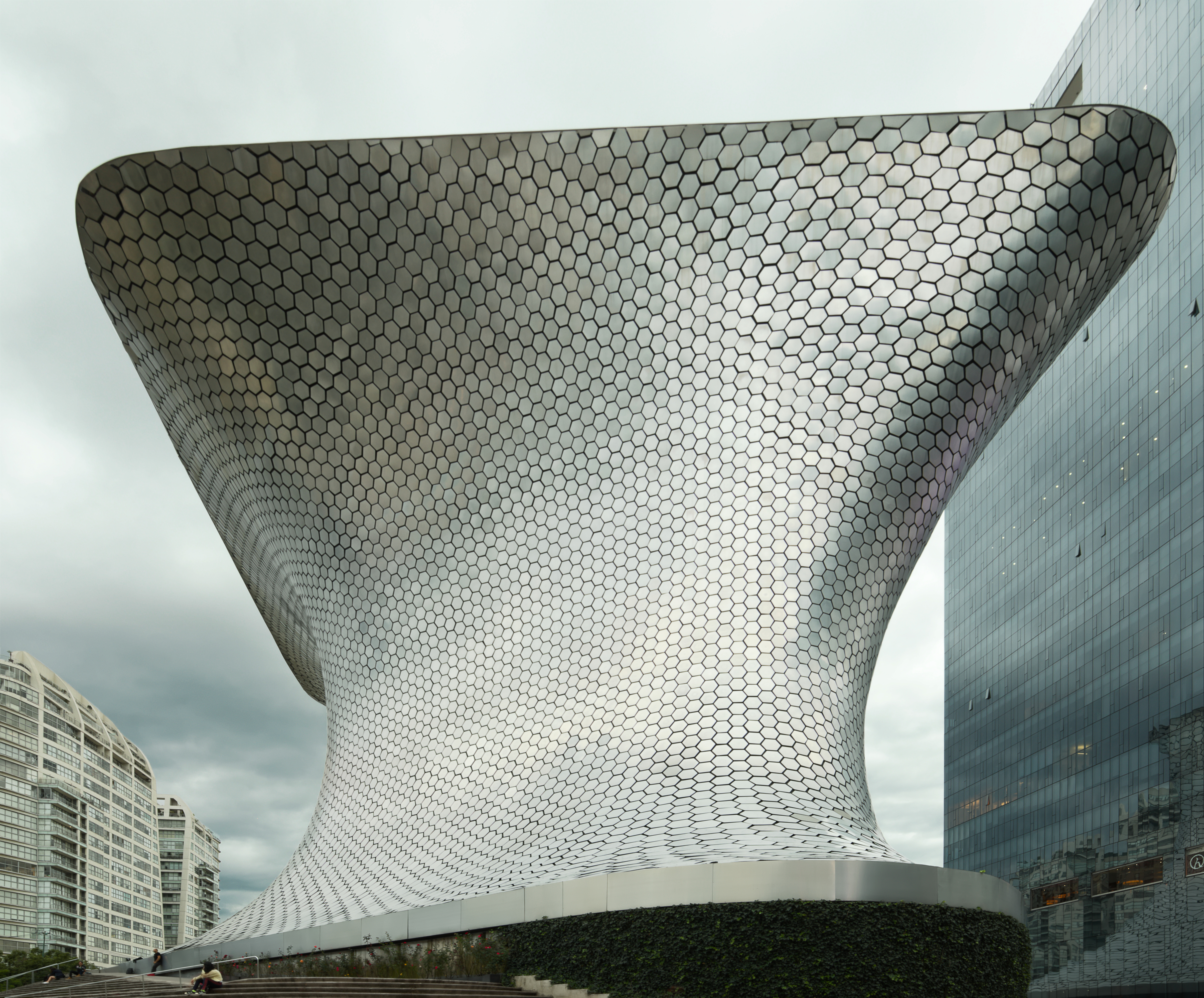 Museo Soumaya, private art museum in Mexico City, it shares the art collection of Carlos Slim foundation with more of 30 centuries of american and european art.